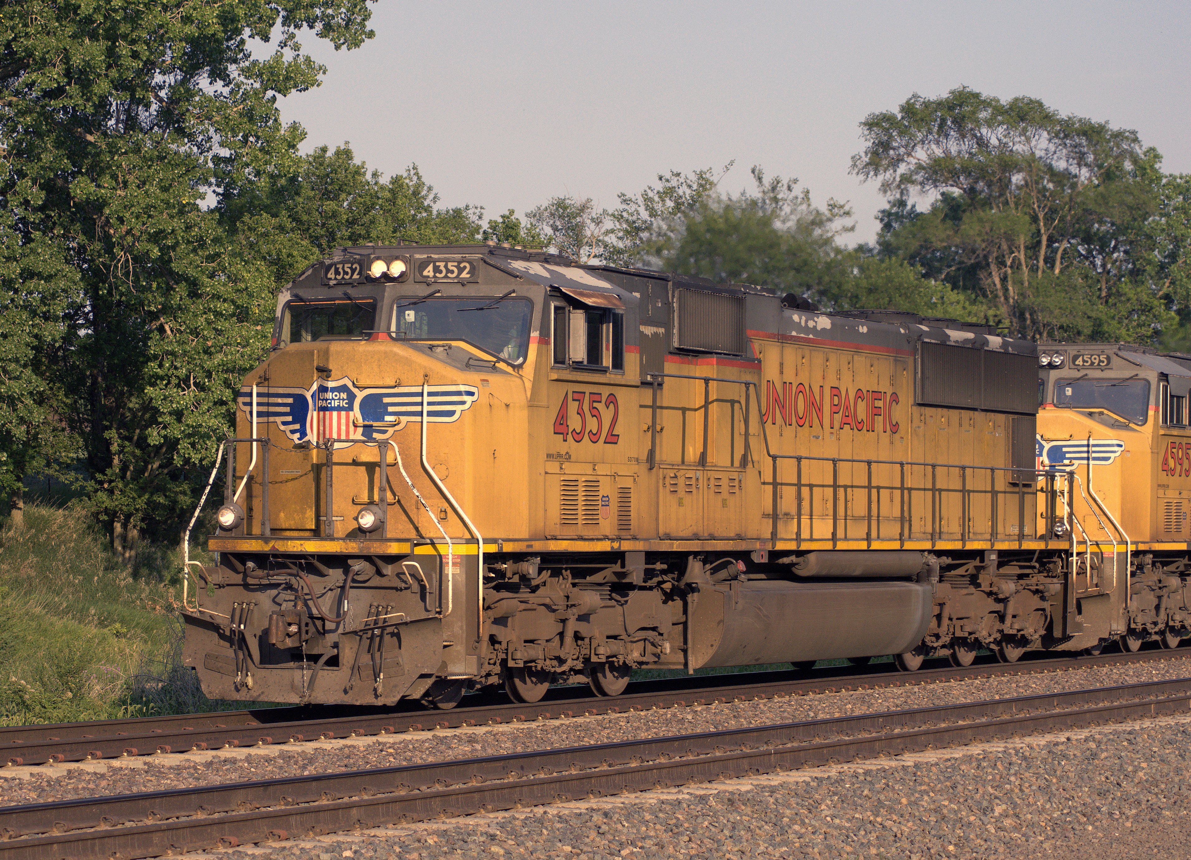 UP SD70M no. 4352 at Fairbury, Nebraska in July 2014